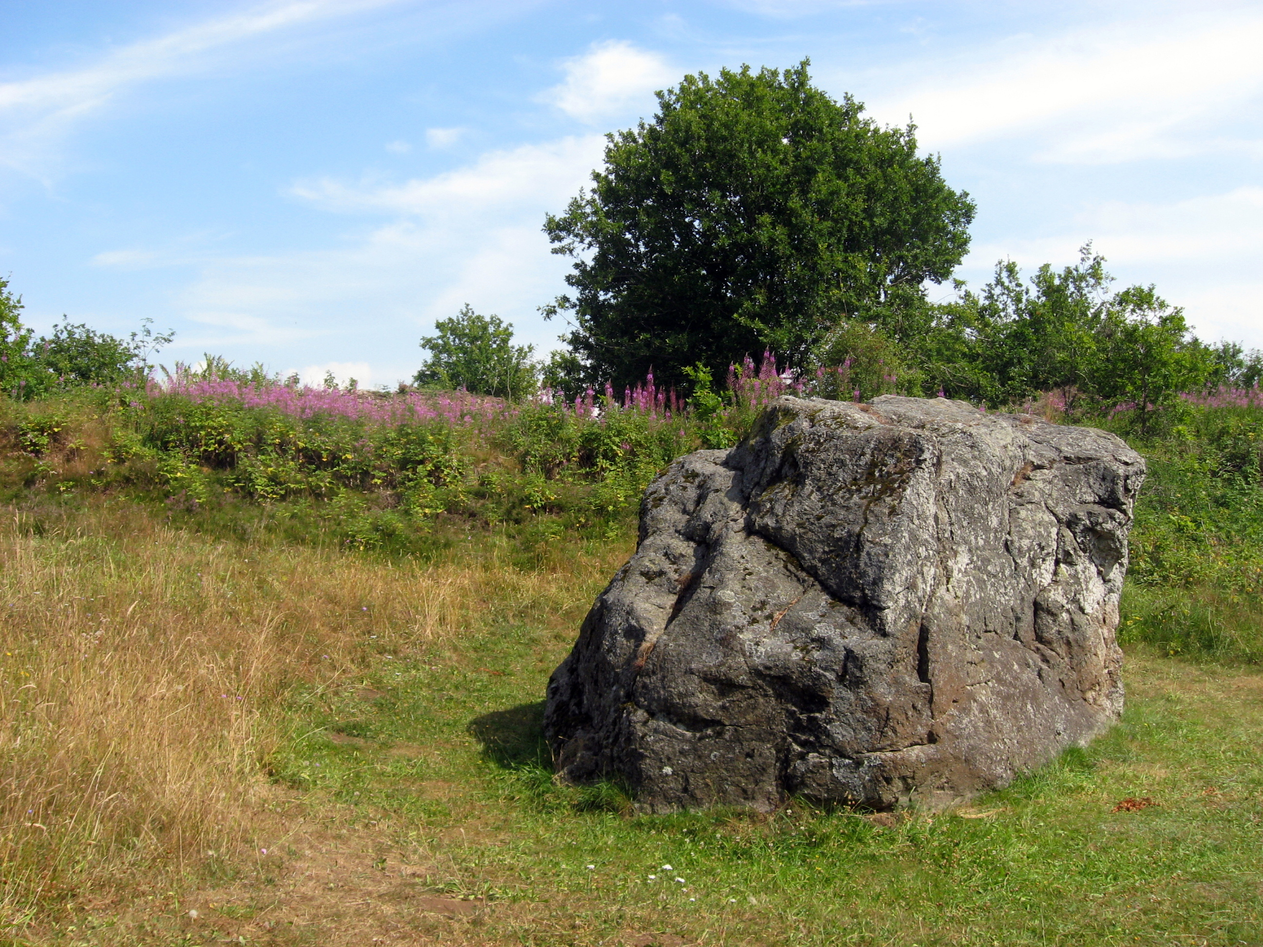 Janum Kjøt, a glacial erratic in the northern Denmark